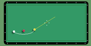 A massé shot on the castle, from a snooker safety, in five-pin billiards also known as Italian billiards.